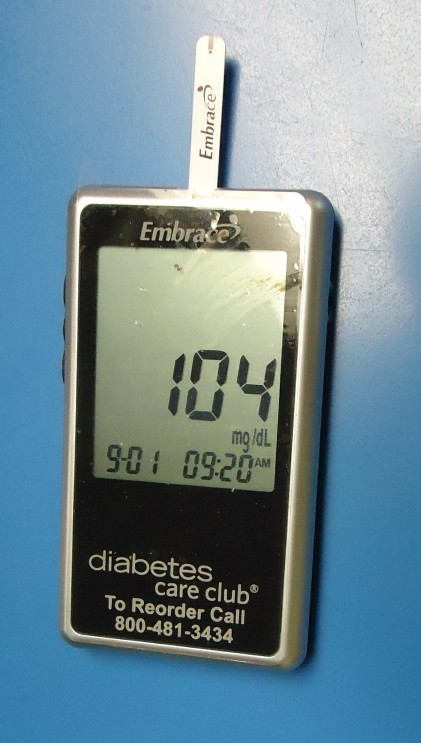 This electronic device is used to measure levels of glucose in the bloodstream and to help diabetics manage their condition.